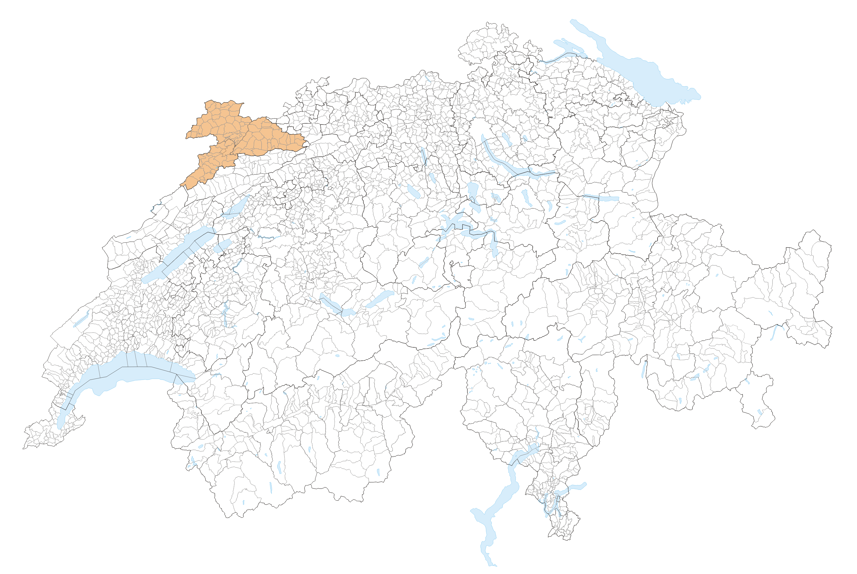 Kanton Jura